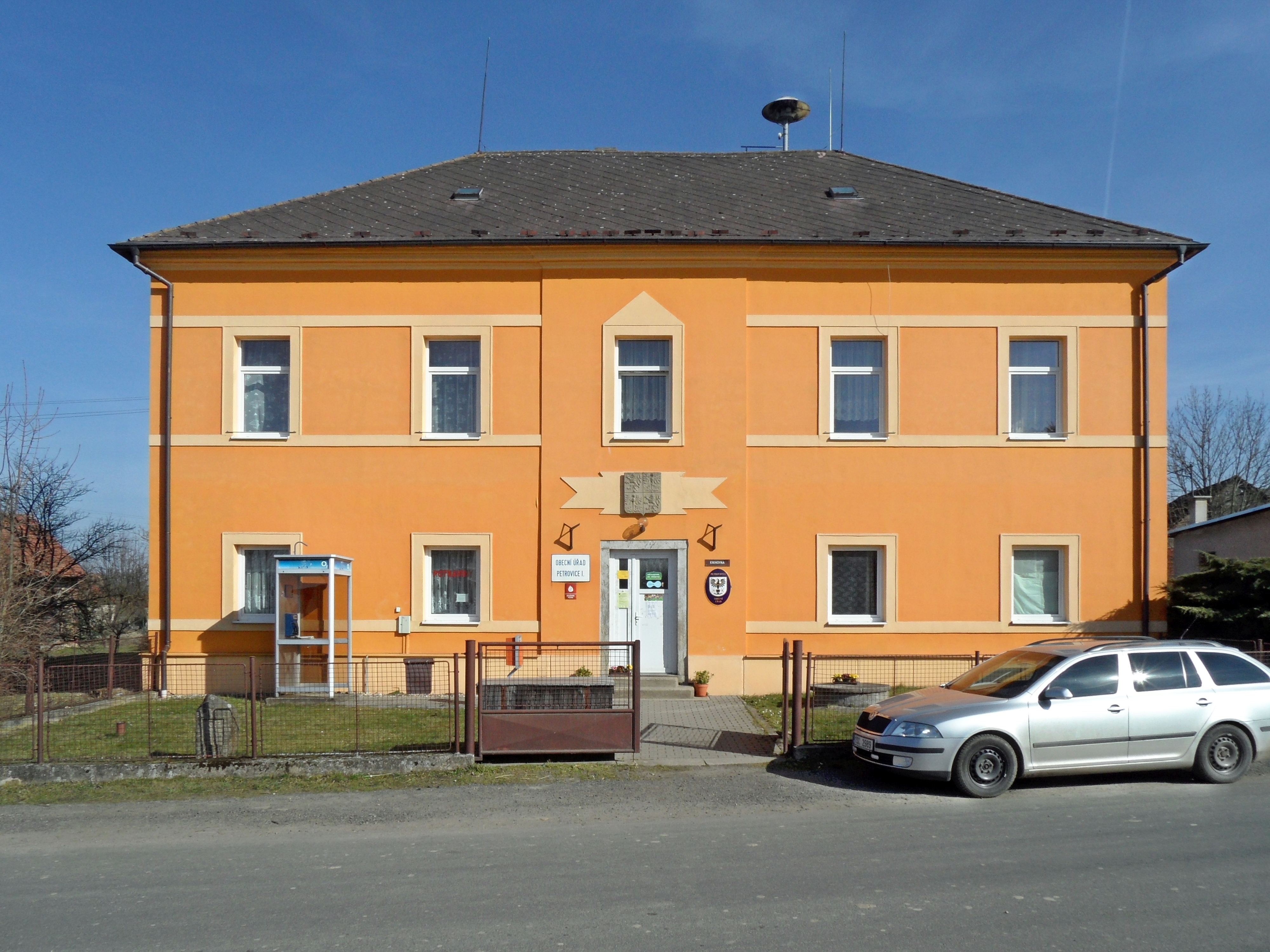 Petrovice I d. Building of Municipality Office. Kutná Hora District, the Czech Republic.